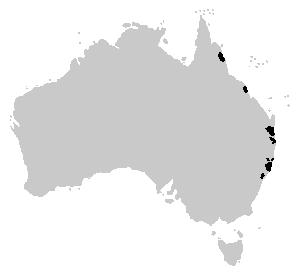 Distribution map of the Whirring Tree Frog, (Litoria revelata).